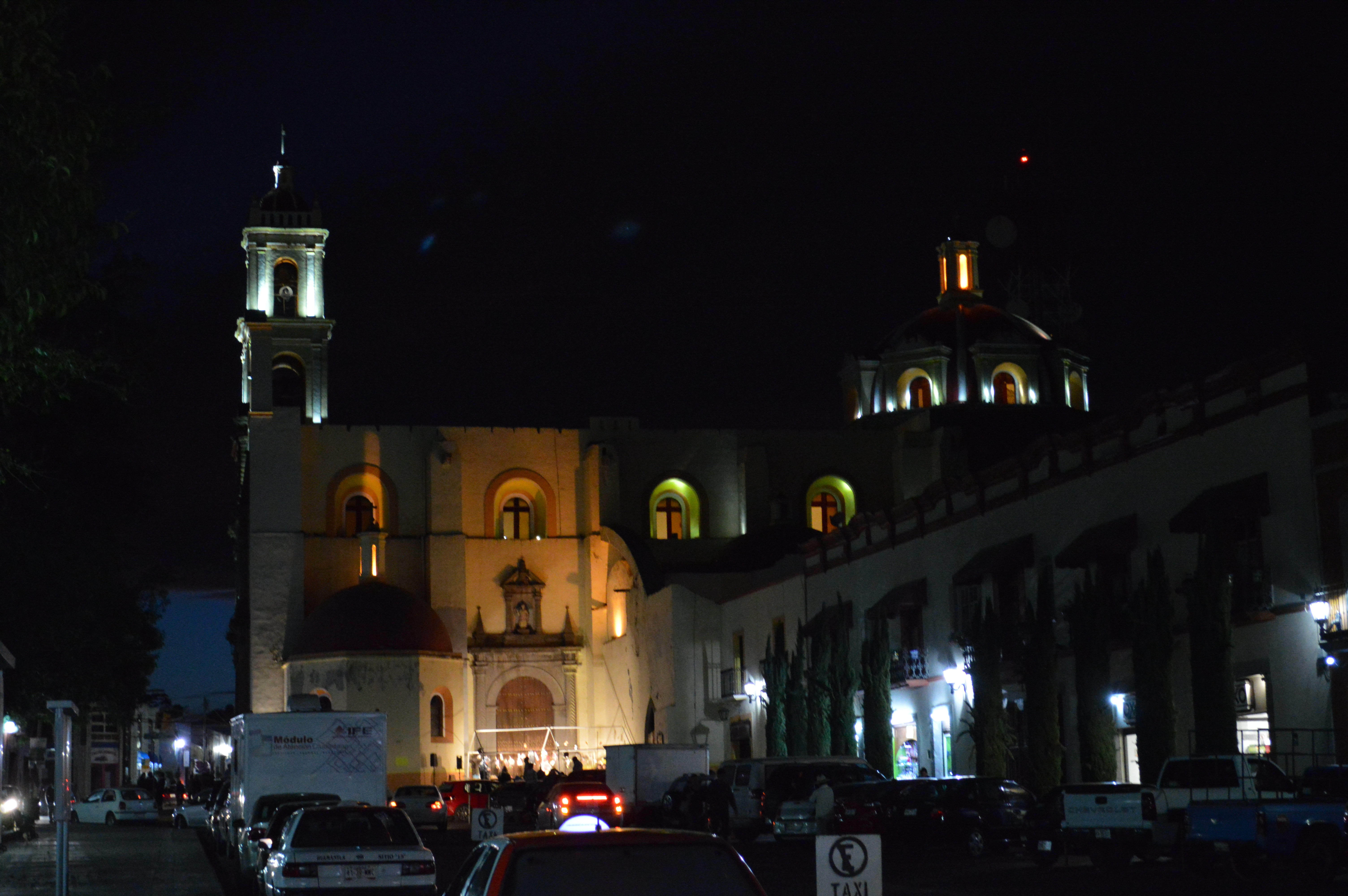 View of the Parish of San Luis Obispo side at night in Huamantla, Tlaxcala, Mexico